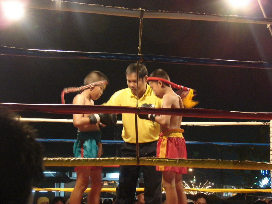 Muay Thai boy fighters in Uttaradit, Thailand